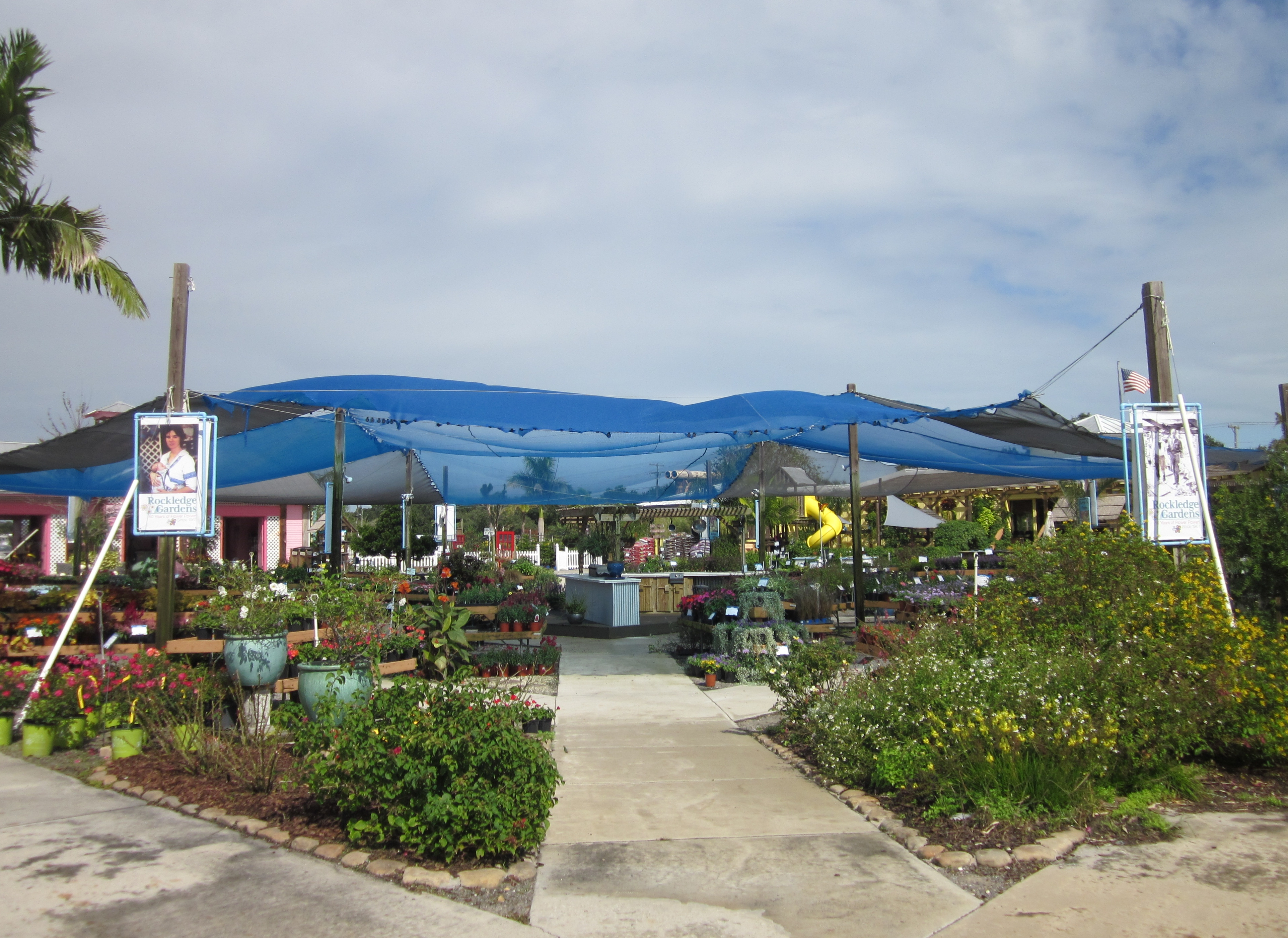 Rockledge Gardens in Rockledge, FL